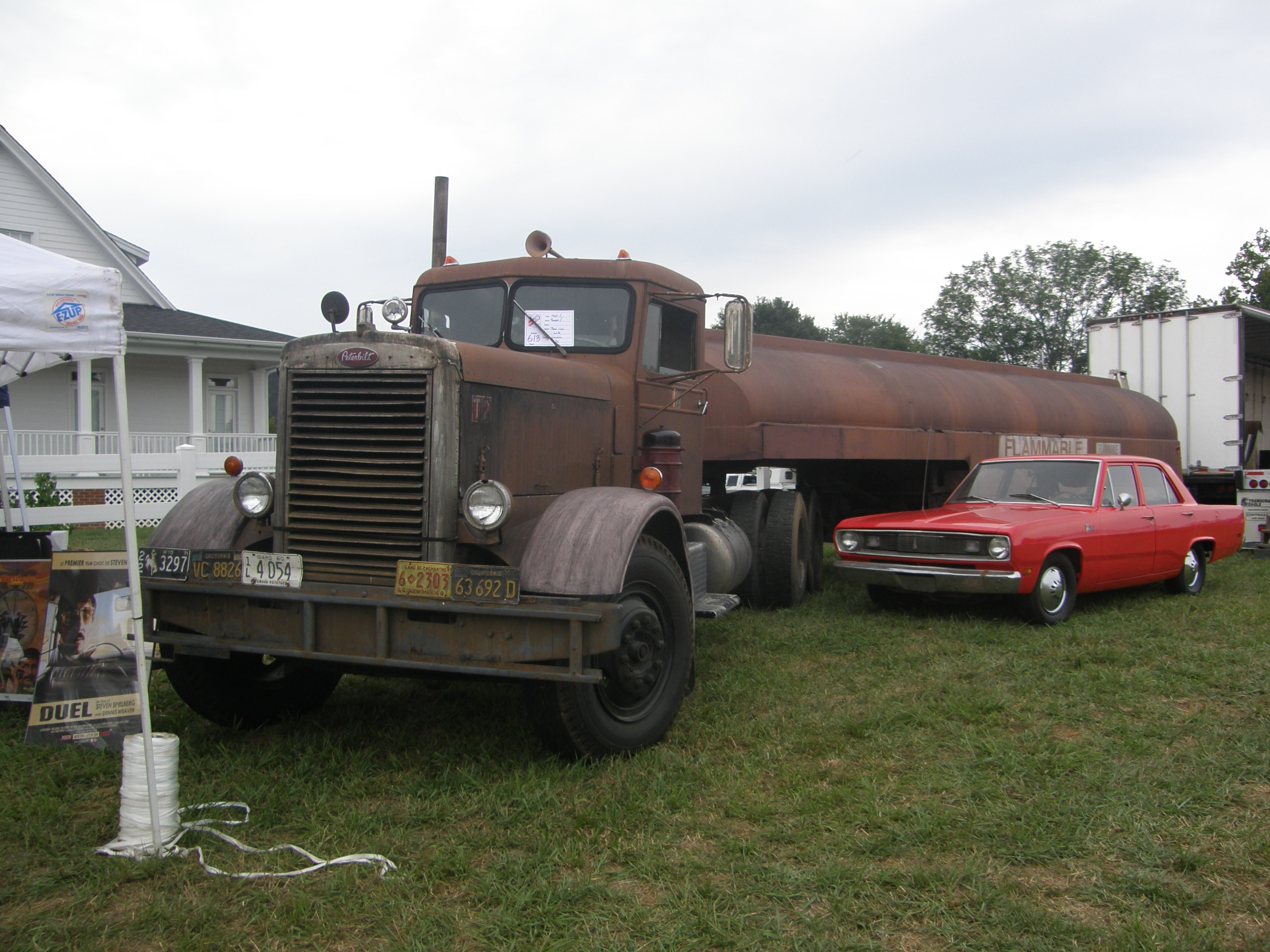 The surviving "Duel" (1971) truck, restored, at the 2010 Virginia-Carolina Truck Show, beside a Plymouth Valiant. Built in 1960 as a 281 with tag axle. Recently, the tag axle was replaced, and since both rear axles are powered because of that, it is technically a 351 now.